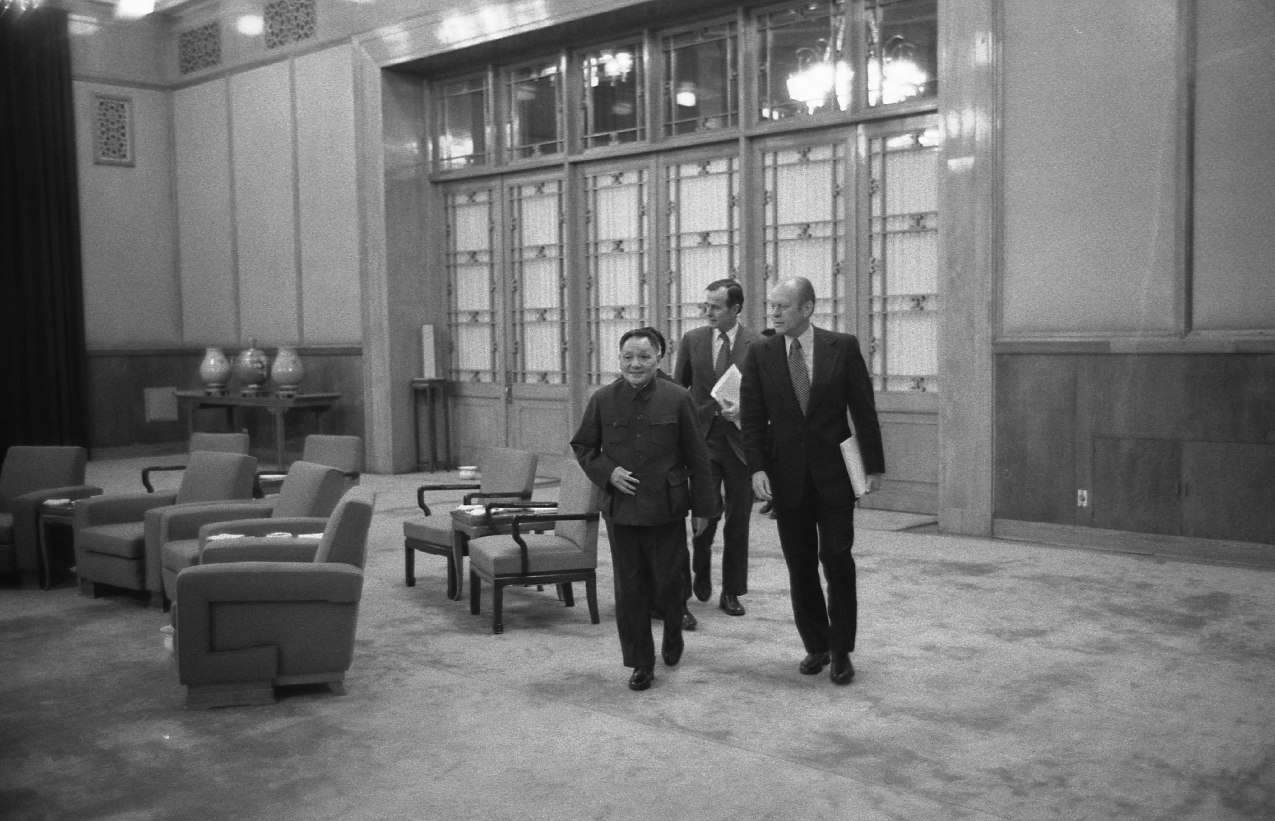 After bilateral talks Vice Premier Deng Xiaoping leads President Ford and Chief U.S. Liaison Officer George H.W. Bush through the Great Hall of the People. ID #A7620-15A.